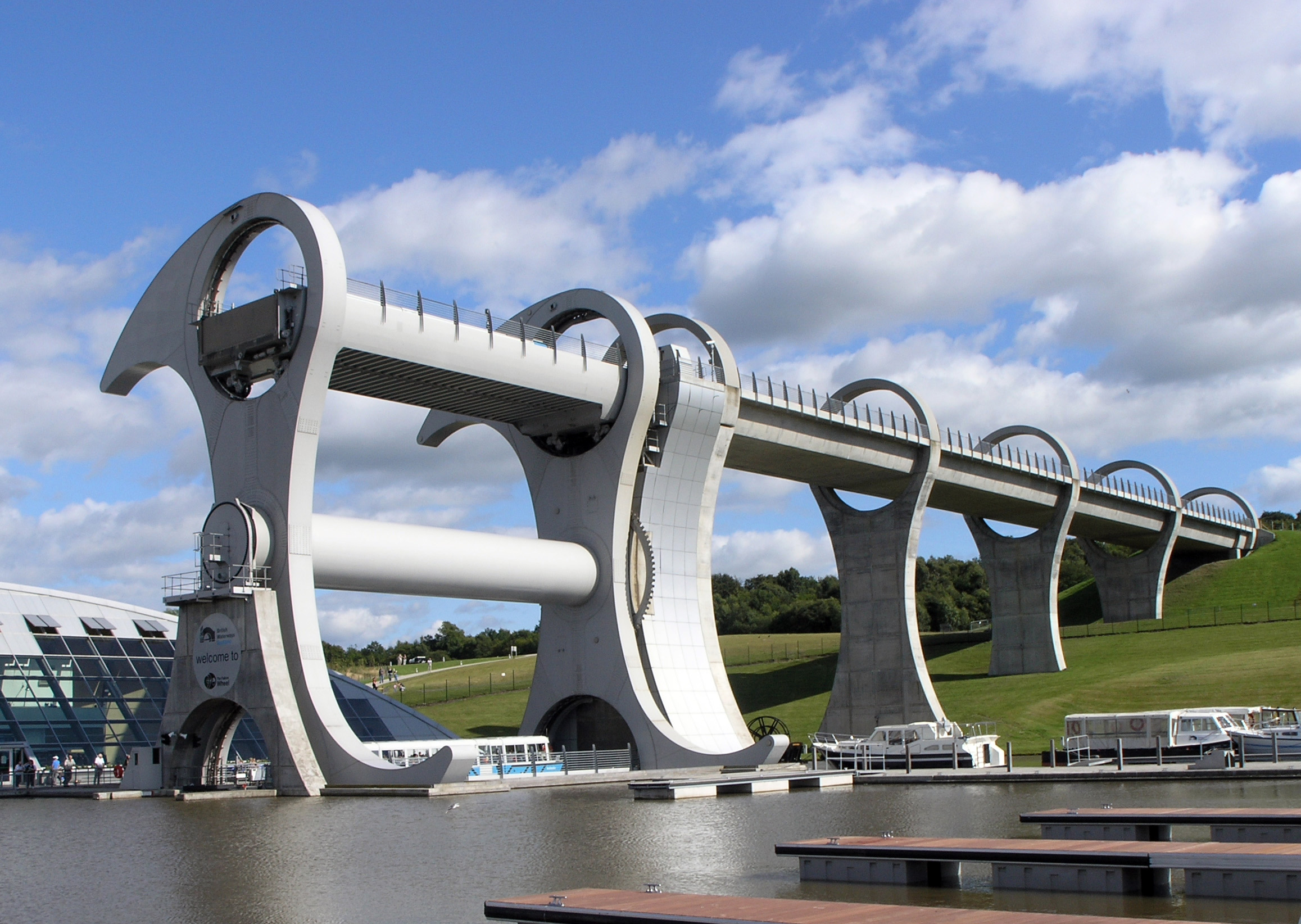 Falkirk Wheel Side 2004.